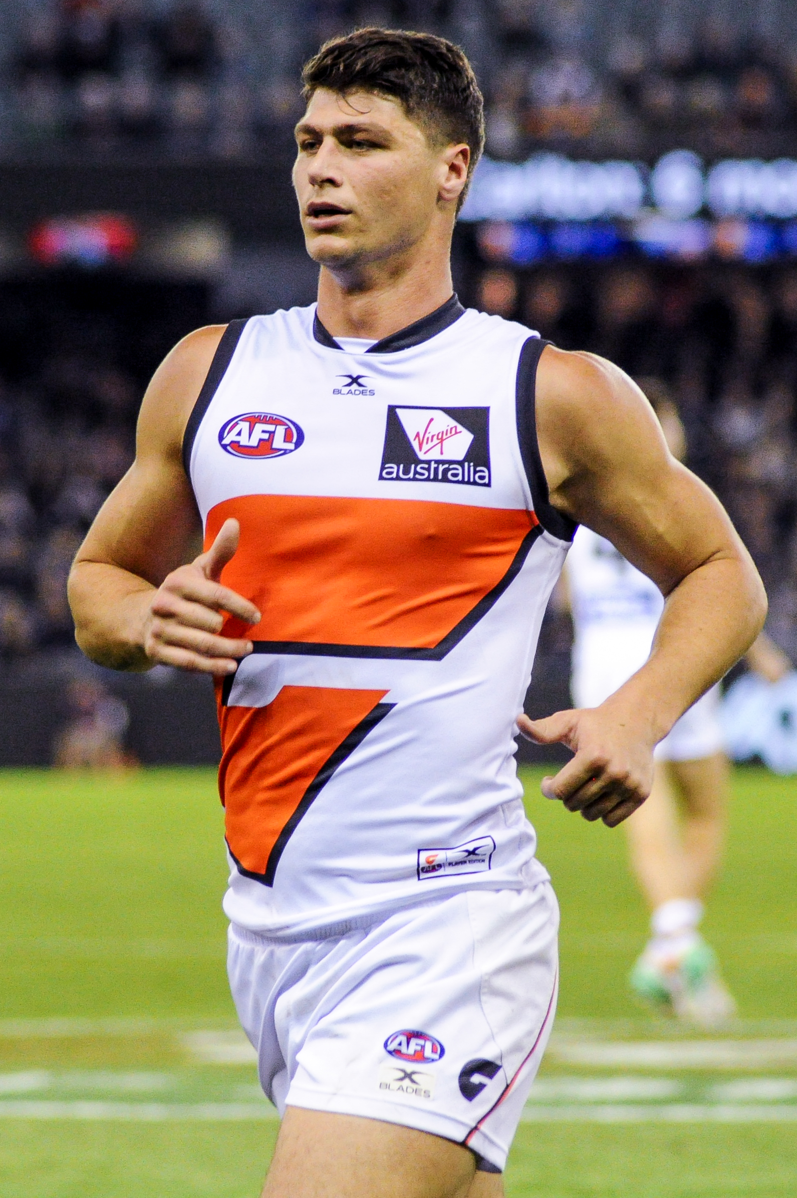 Jonathon Patton during the AFL round twelve match between Carlton and Greater Western Sydney on 11 June 2017 at Etihad Stadium in Melbourne, Victoria.